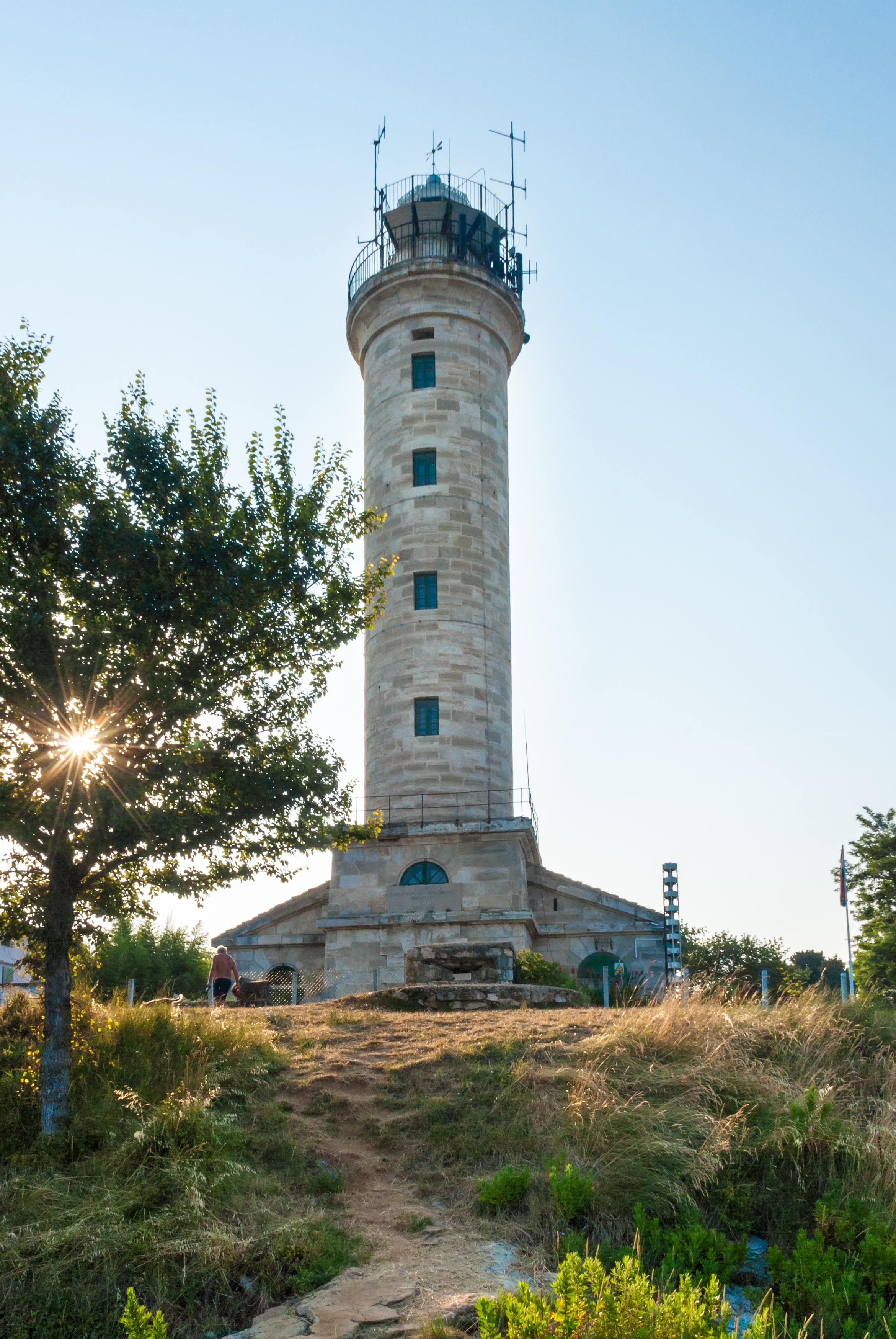 Savudrija LighthouseSlovenščina: Savudrijski svetilnik